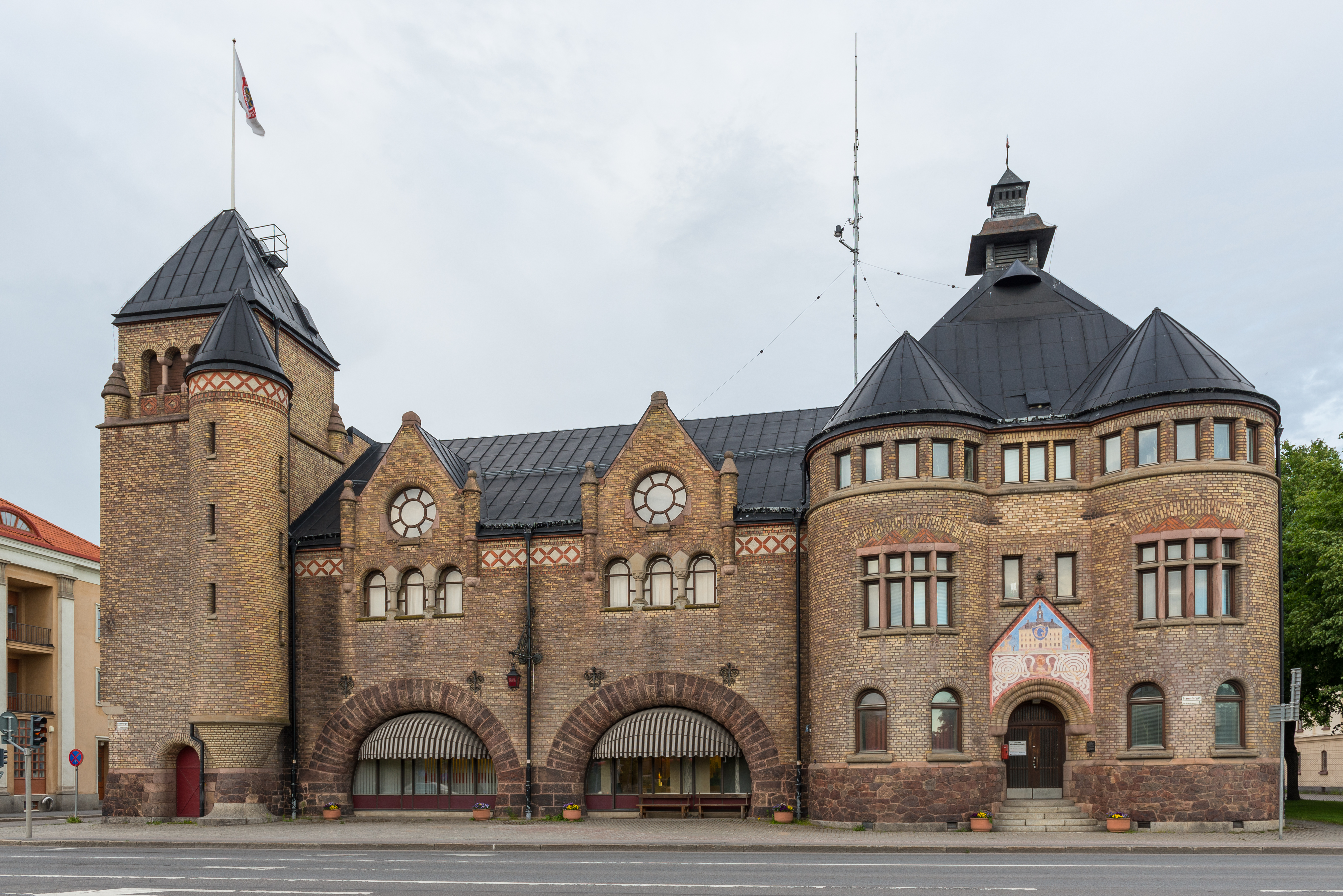 Gävle brandstation (fire station).